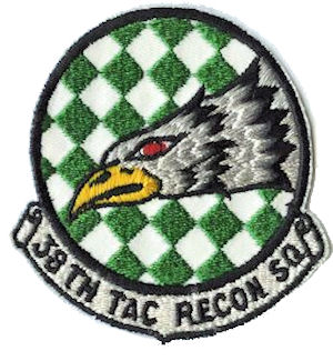 Emblem of the USAF 38th Tactical Reconnaissance Squadron